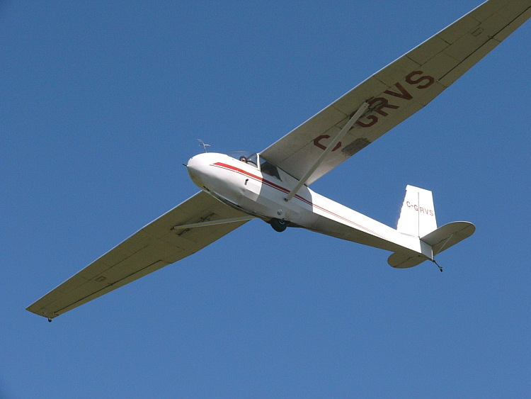 I took this photo of a Schweizer SGS 2-33 (C-GRVS) at Kars/Rideau Valley Air Park on 24 May 08.